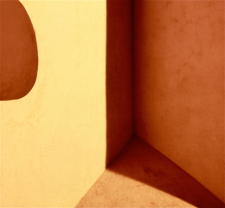 Augusto De Luca - Photo 3